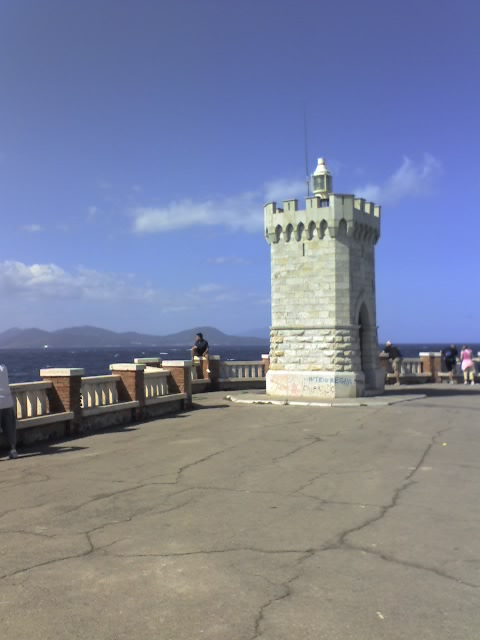 see above